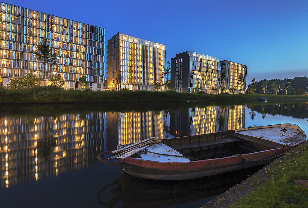 Luxury apartments and maisonettes on the Erasmusgracht, with soundproof panels on the nearby highway.